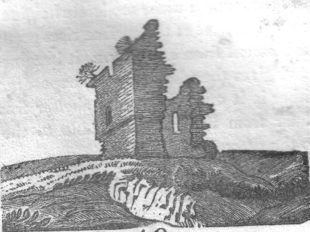 Auchenharvie Castle in Ayrshire in 1820. This print is from George Robertson's book on Cunninghame.